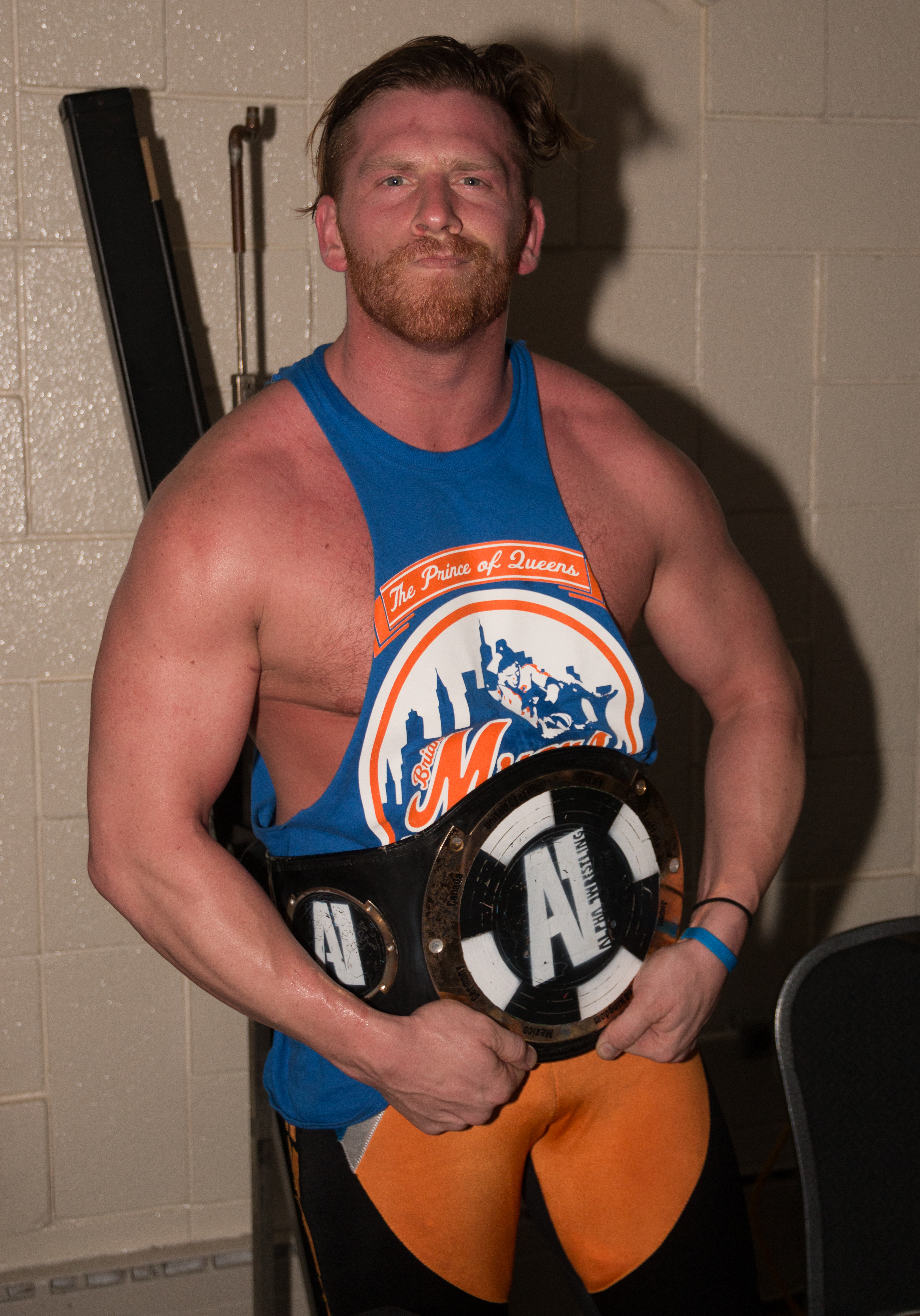 Brian Myers (also known as Curt Hawkins) with the Alpha-1 Alpha Male title